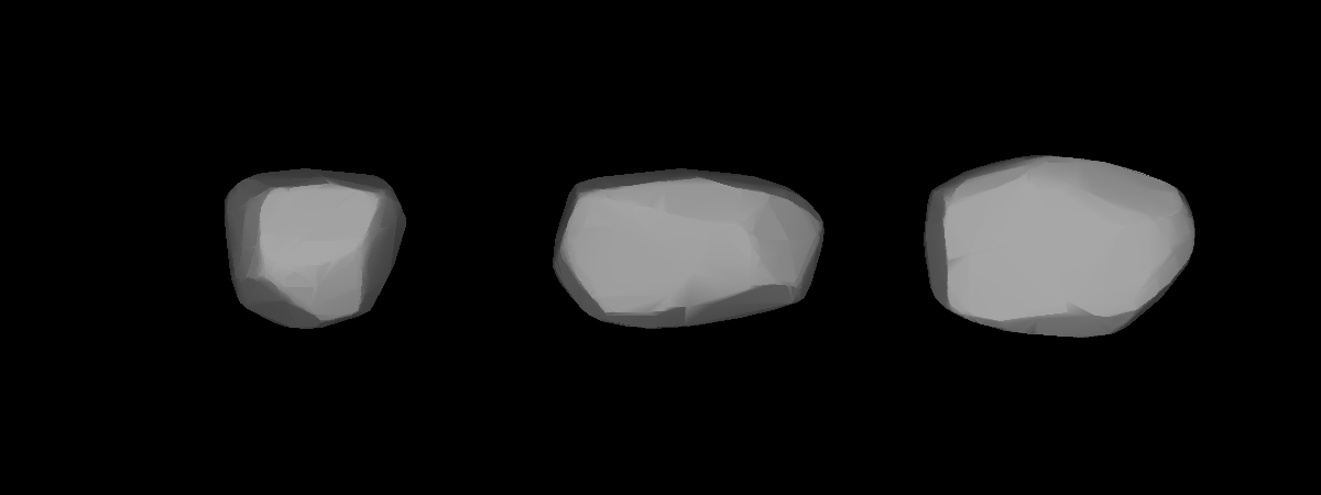 A three-dimensional model of 731 Sorga that was computed using light curve inversion techniques.